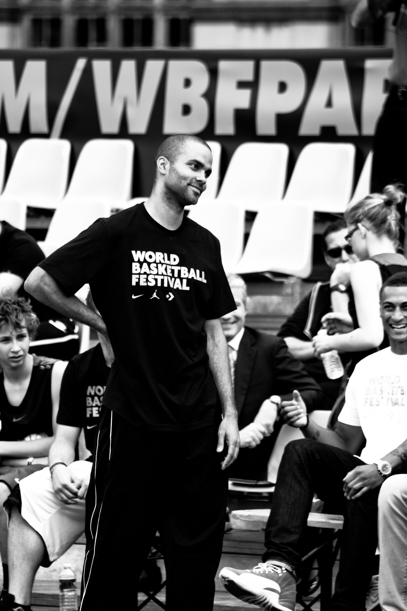 World Basketball Festival 2012, Cité internationale universitaire, Paris 16 July 2012.